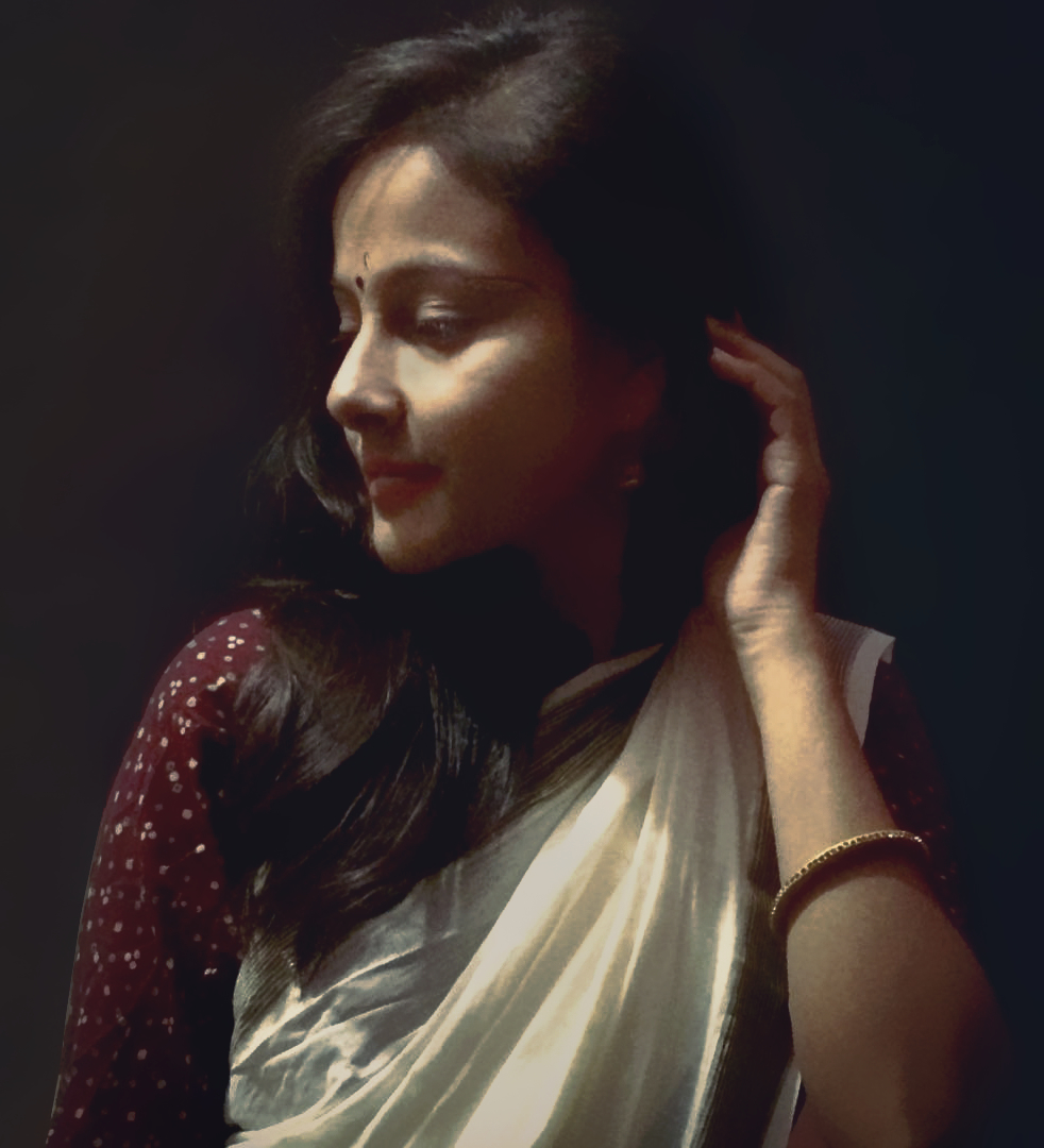 Indian girl in traditional attire on occasion of Diwali